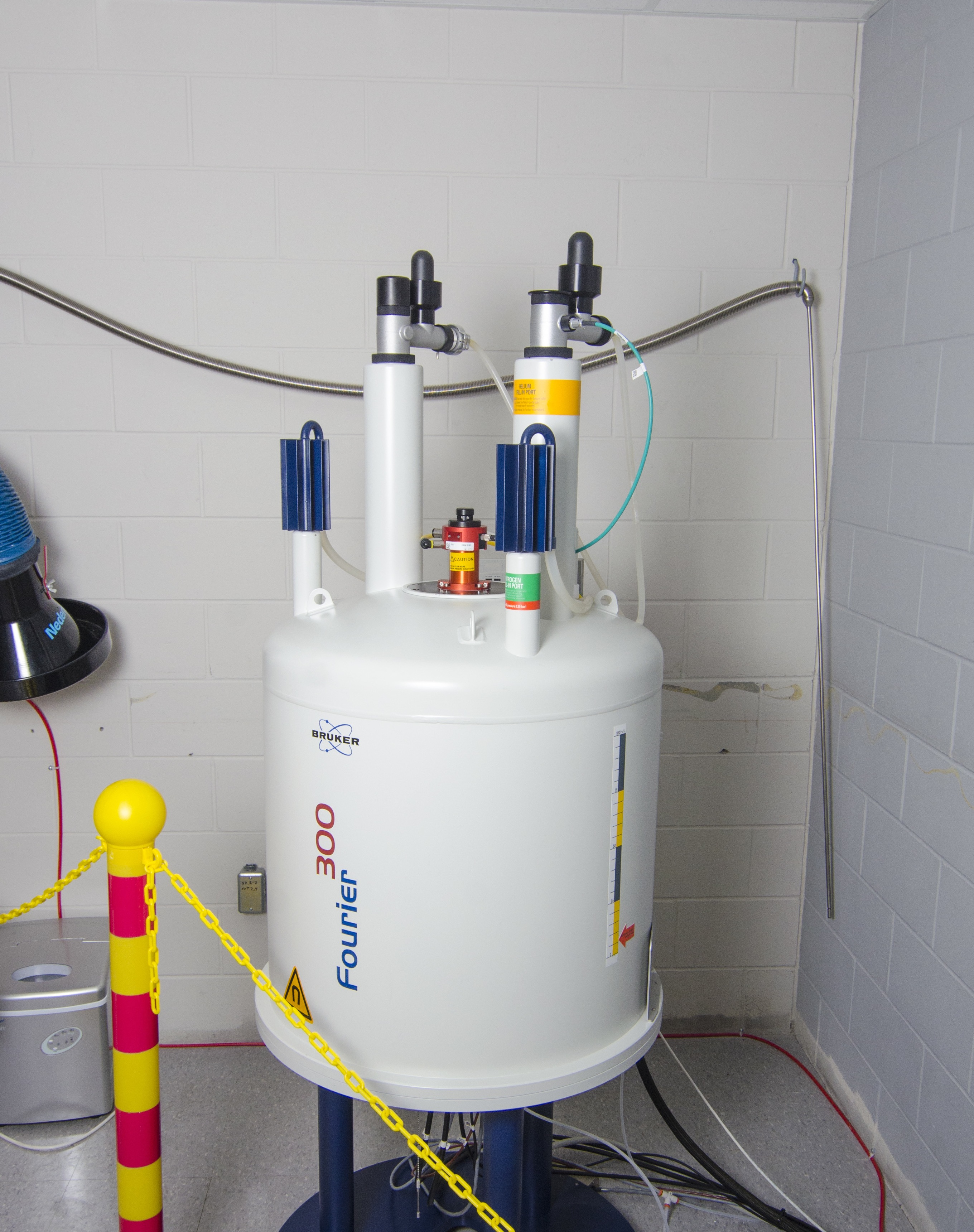 A picture of Nipissing University's NMR spectrometer